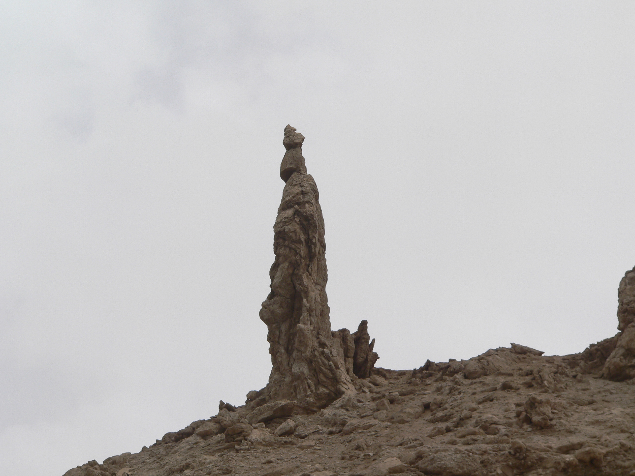 M Disdero 25/02/2007